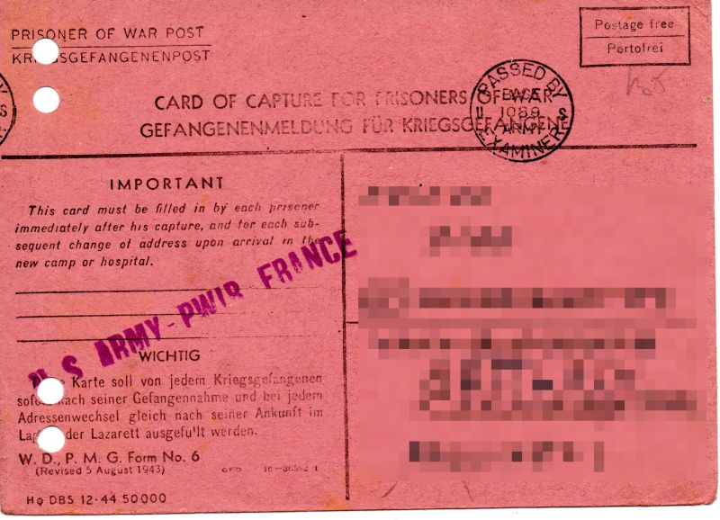 card of capture of prisoners - frontside